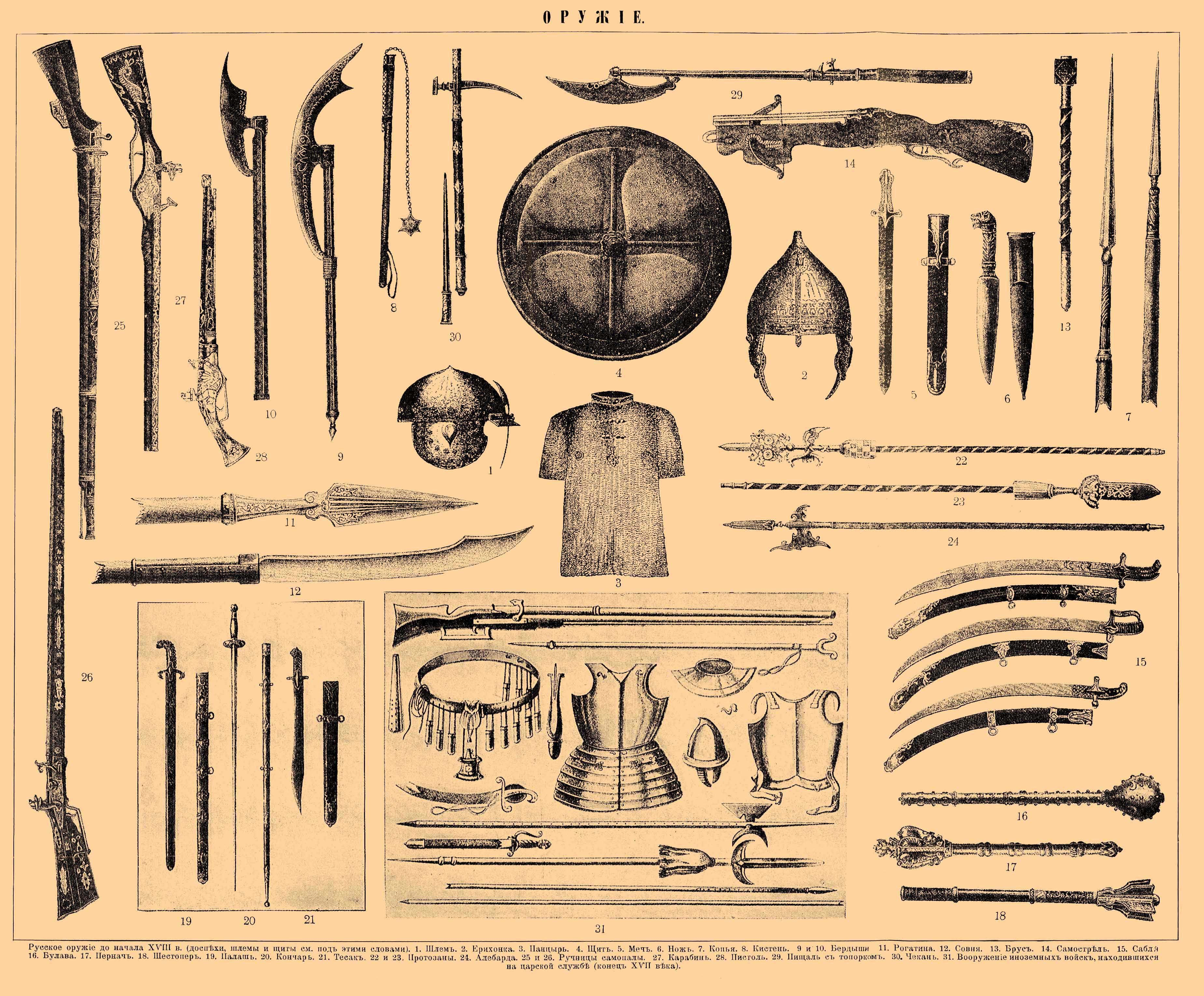 Illustration from Brockhaus and Efron Encyclopedic Dictionary (1890—1907)